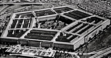 Aerial photography of The Pentagon, circa 1953